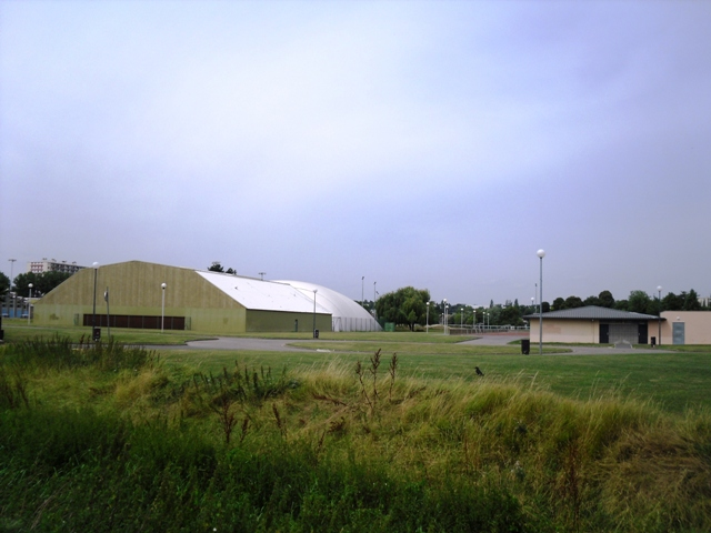 Stadium of Frédéric Langrenay in Longjumeau, Essonne, France